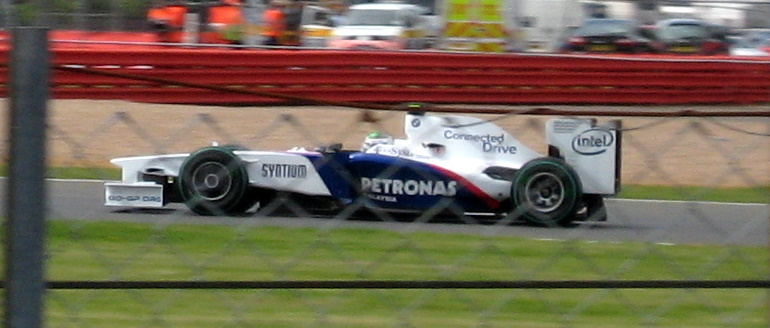 Nick Heidfeld at the 2009 British Grand Prix, Silverstone, UK.